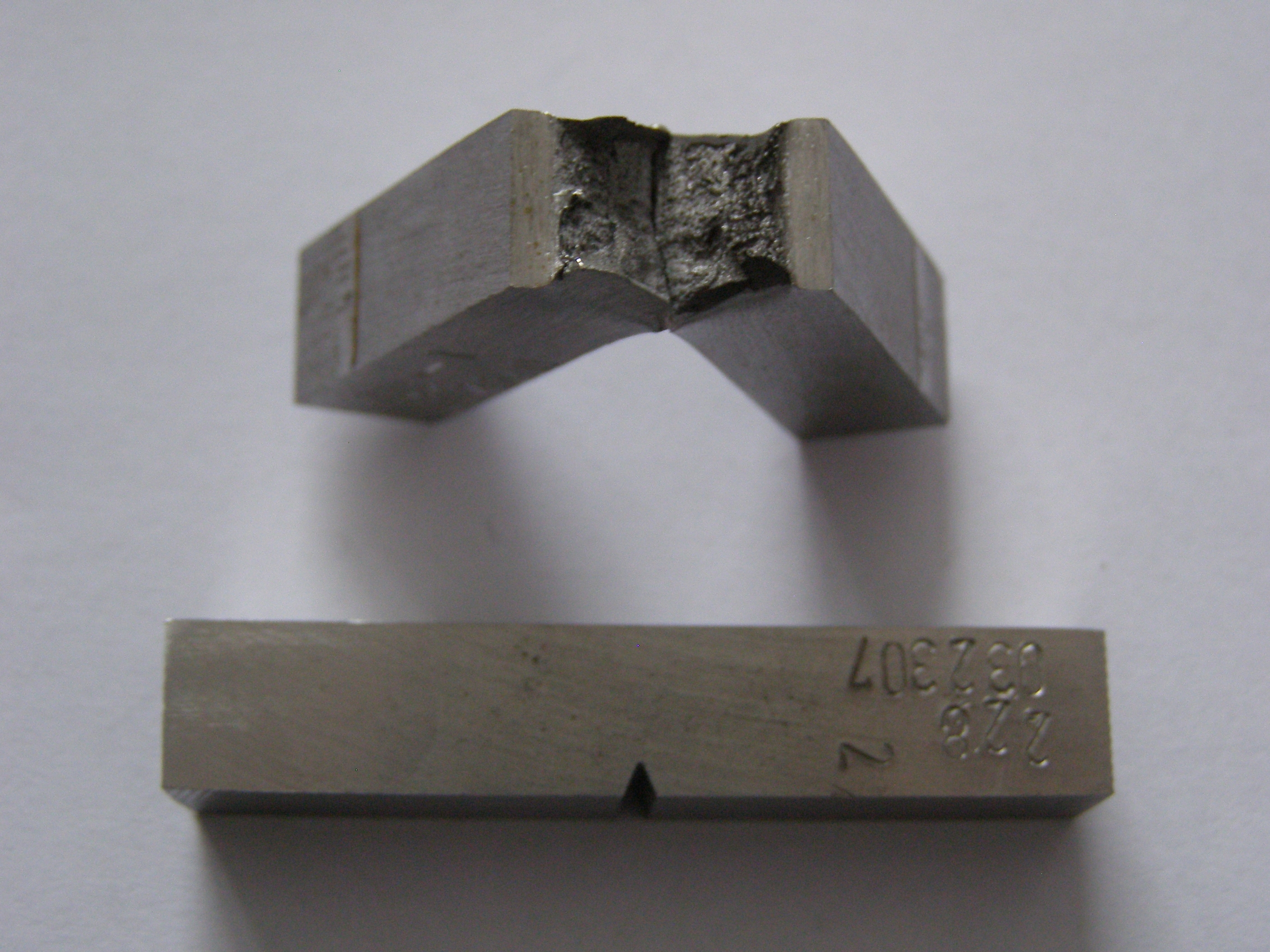 V-shaped notch specimens before and after Charpy impact test acc. to ISO 148-1 standard